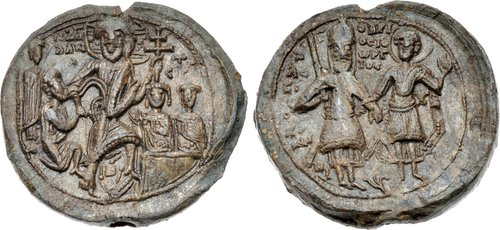 Alexius Comnenus. 12th century. PB Seal (39mm, 44.85 g, 12h). H AΓI/A AN APA/CIC, The Anastasis (Resurrection): the Resurrected Christ standing facing, but advancing slightly right, above the broken Gates of Hell filled with the symbols of bondage (keys, lock plates, chain links), drawing Adam up out of his sarcophagus and holding patriarchal cross; to left of Adam, Eve standing right; to right of Christ, imperial couple standing facing side-by-side in adoration / A/ΛЄ/ΞI/[OC]/O/K/O/M/NH/N/O/C down left field, O AΓI/OC ΓЄ/ωPΓ/IOC in center, Alexios, in contemporary Byzantine military outfit and holding sword in right hand over shoulder, standing facing with left forearm being held by St. Georgios, himself in military outfit with sword in scabbard, standing to his left with left hand raised. Zacos I 93. EF. Extremely rare.